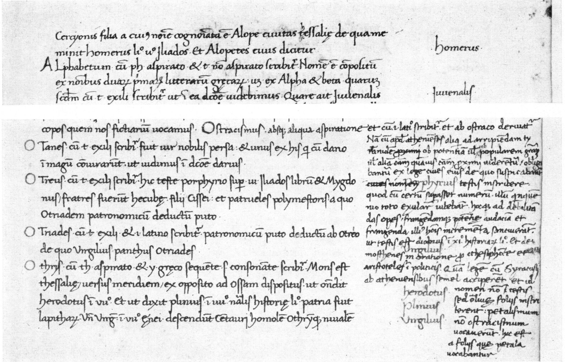 Giovanni Tortelli, De orthographia, autograph. Biblioteca Apostolica Vaticana, Vat. lat. 1478, fol. 61r (above) und 256r (below).